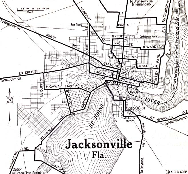 Map of Jacksonville, Fla., USA